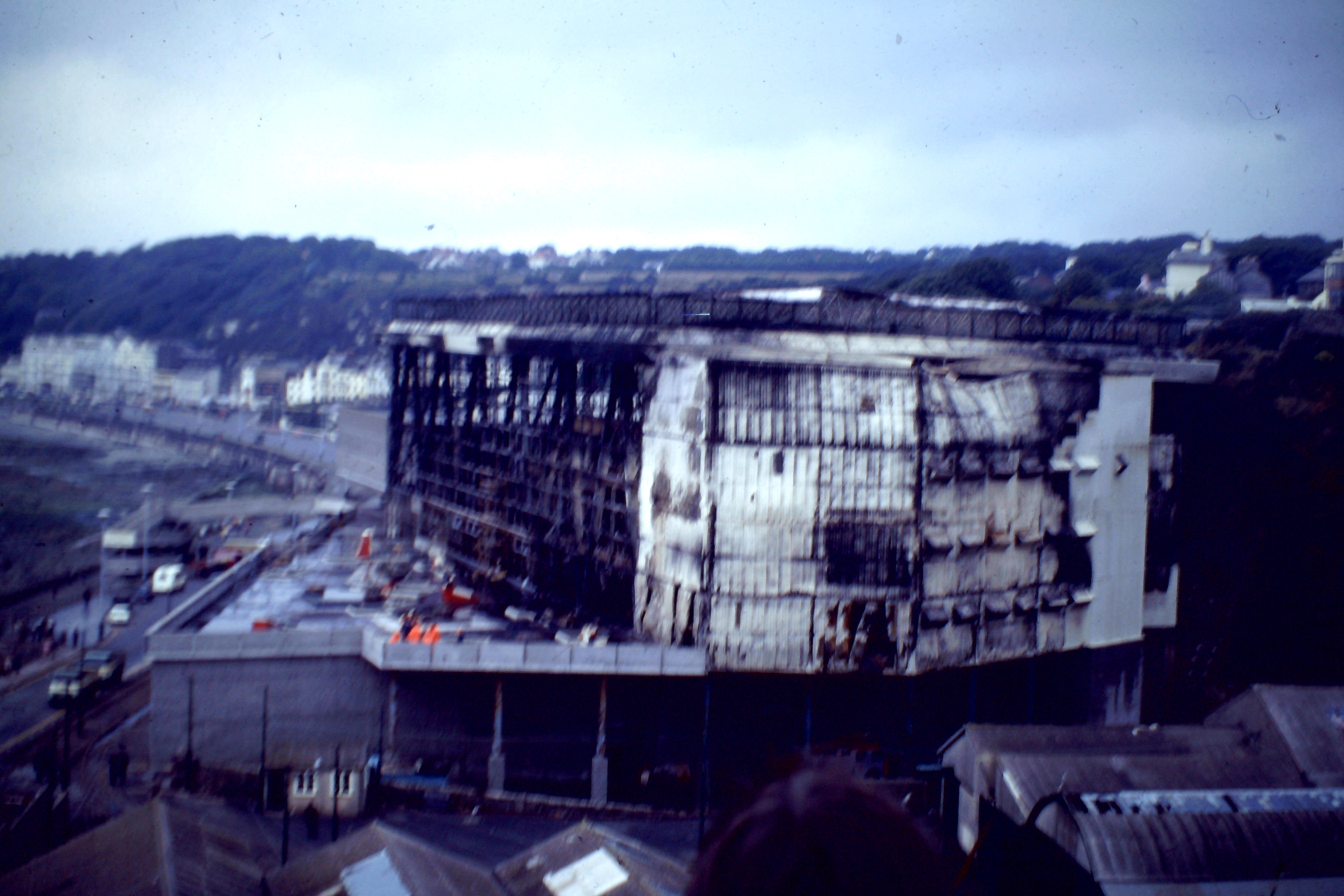 Summerland - the burnt out remains the month after the fire On the evening of 2nd August 1973, the Summerland leisure centre was engulfed by fire (caused by discarded cigarettes). 50 people were killed.